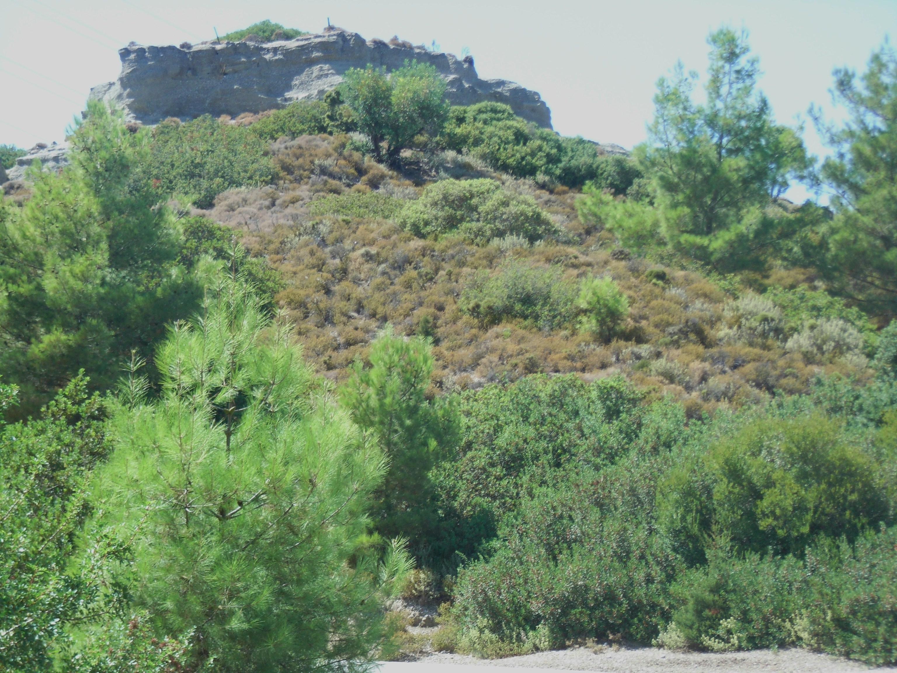 Phrygana (synonym spiny garrigue) - open dwarf scrub dominated by low, often cushion-shaped, spiny shrubs. The phryganic species are high temperature- and drought-tolerant and they grow at low altitudes, usually on poor and rocky limestone and siliceous substrates The most common phryganic species on Rhodes are: Sarcopterium spinosum, Cistus incanus ssp. creticus, Cistus salviifolius, Phlomis fruticosa , Salvia triloba Quercus coccifera, Asparagus acutifolius, Genista acanthoclada, Euphorbia acanthothamnos, Sarcopoterium spinosum and Pistacia lentiscus Other species include, Coridothymus capitatus, Thymus sp., Hypericum empetrifolium, Salvia triloba, Sarcopoterium spinosum, Erica manipuliflora, Calicotome villosa, Ballota acetabulosa, Asphodelus aestivus, and Globularia alypum